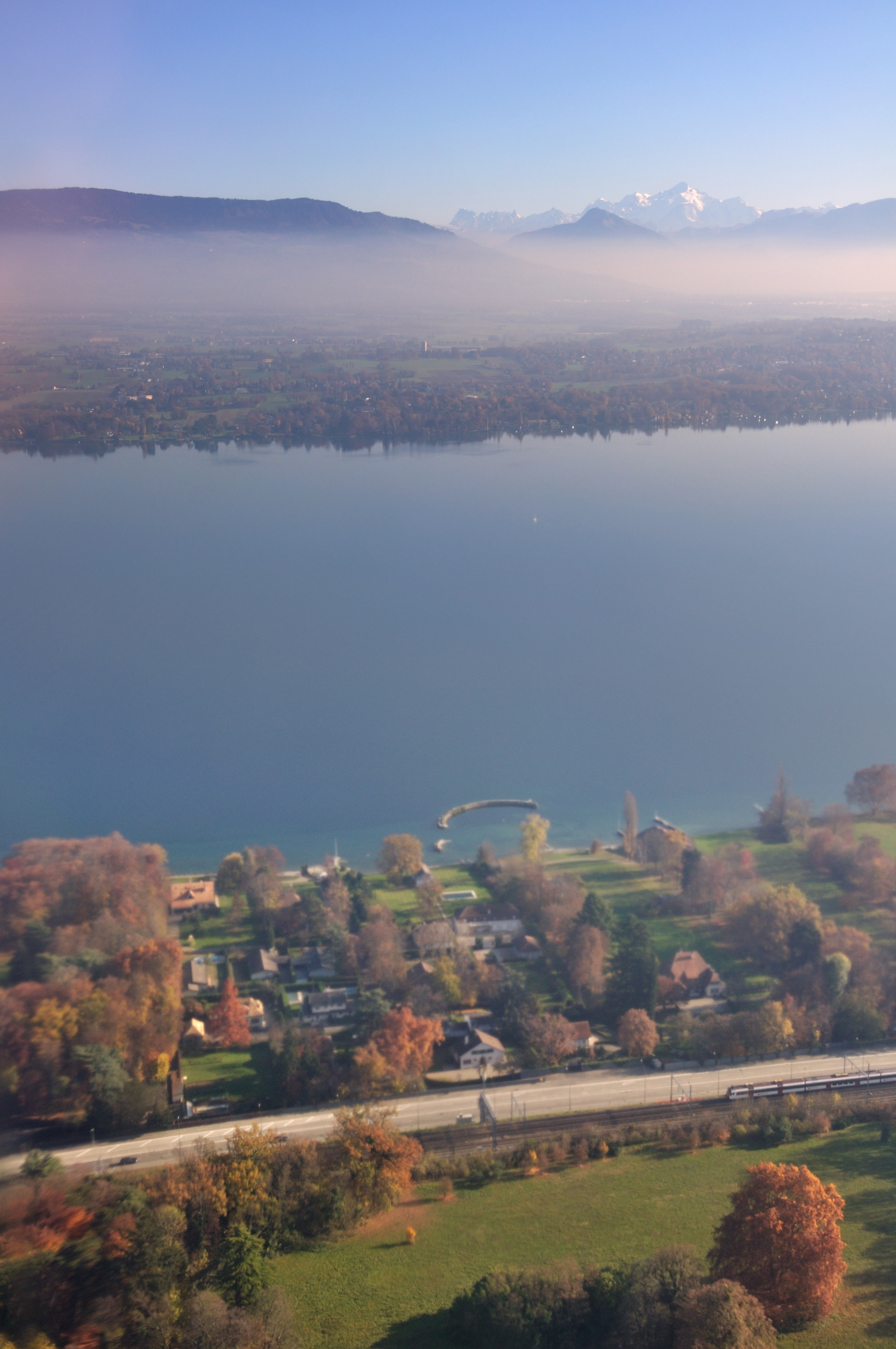 view overhead Versoix on a clear November day on a flight from Prague to Geneva.